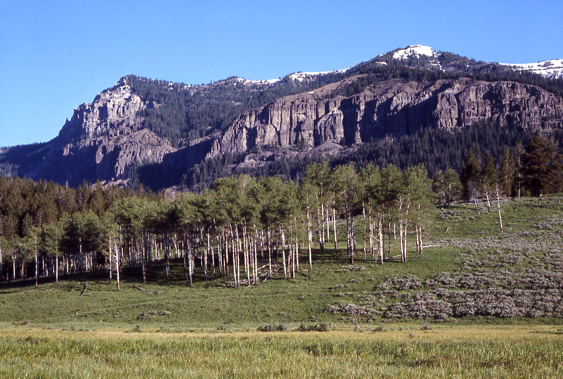 Mount Hornaday from Pebble Creek, Yellowstone National Park, 1974